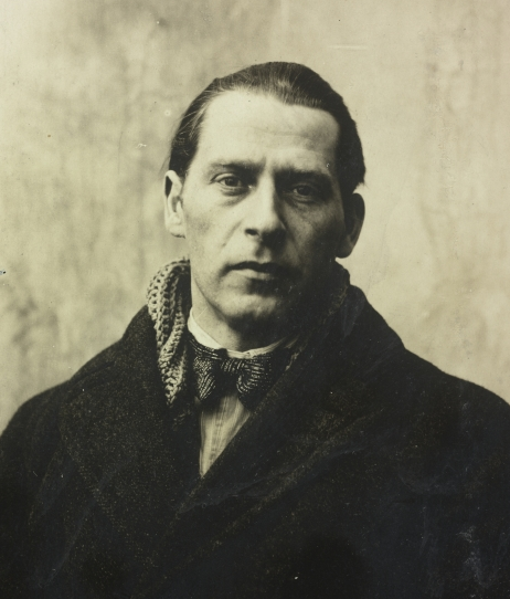 Dagobert Peche (1887–1923), Austrian artist, known for his work for the Wiener Werkstätte.